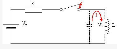 Modification of Induc3a.PNG to suppress a strike for use in fr article: Tension transitoire de rétablissement